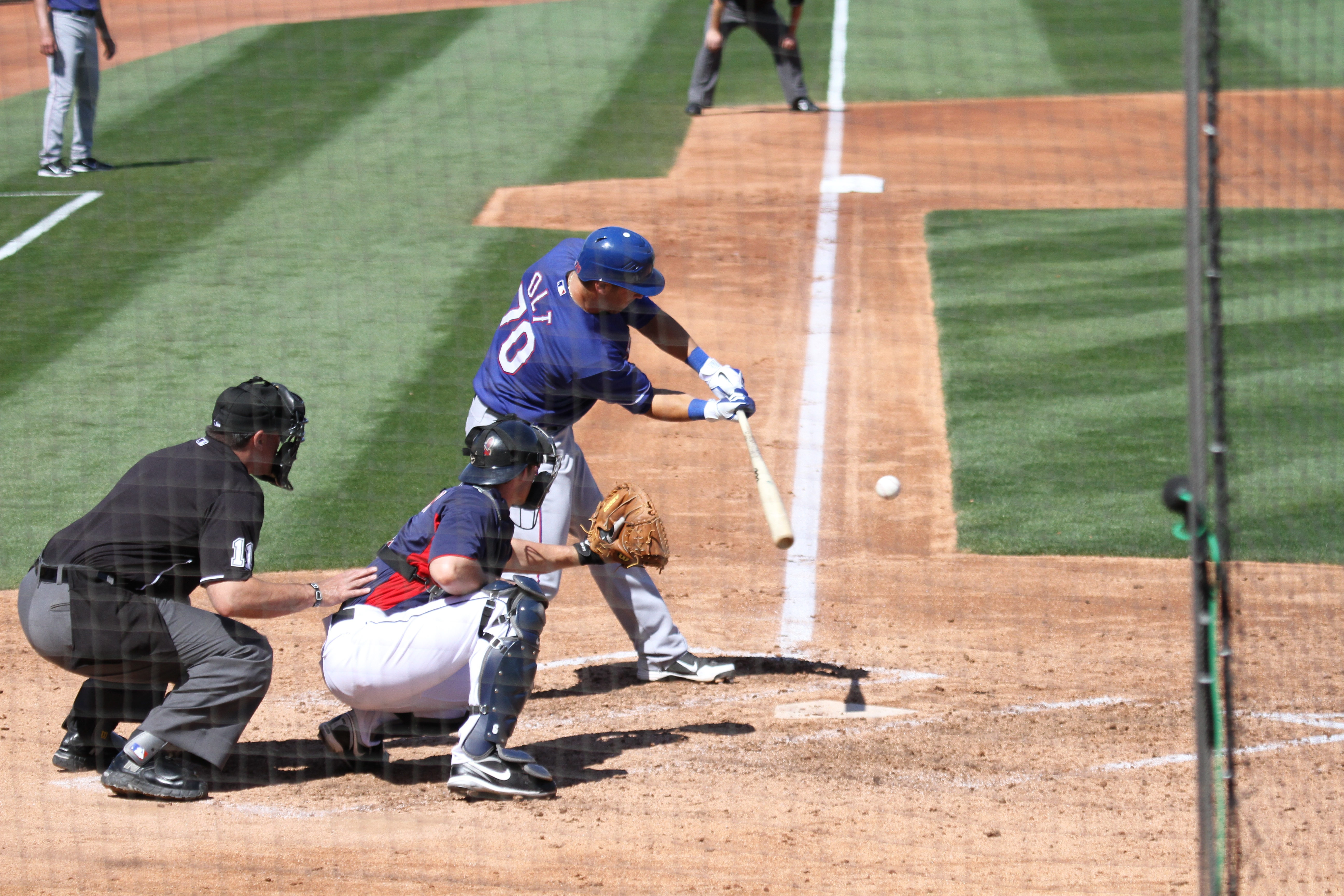 I think he fouled this one off.